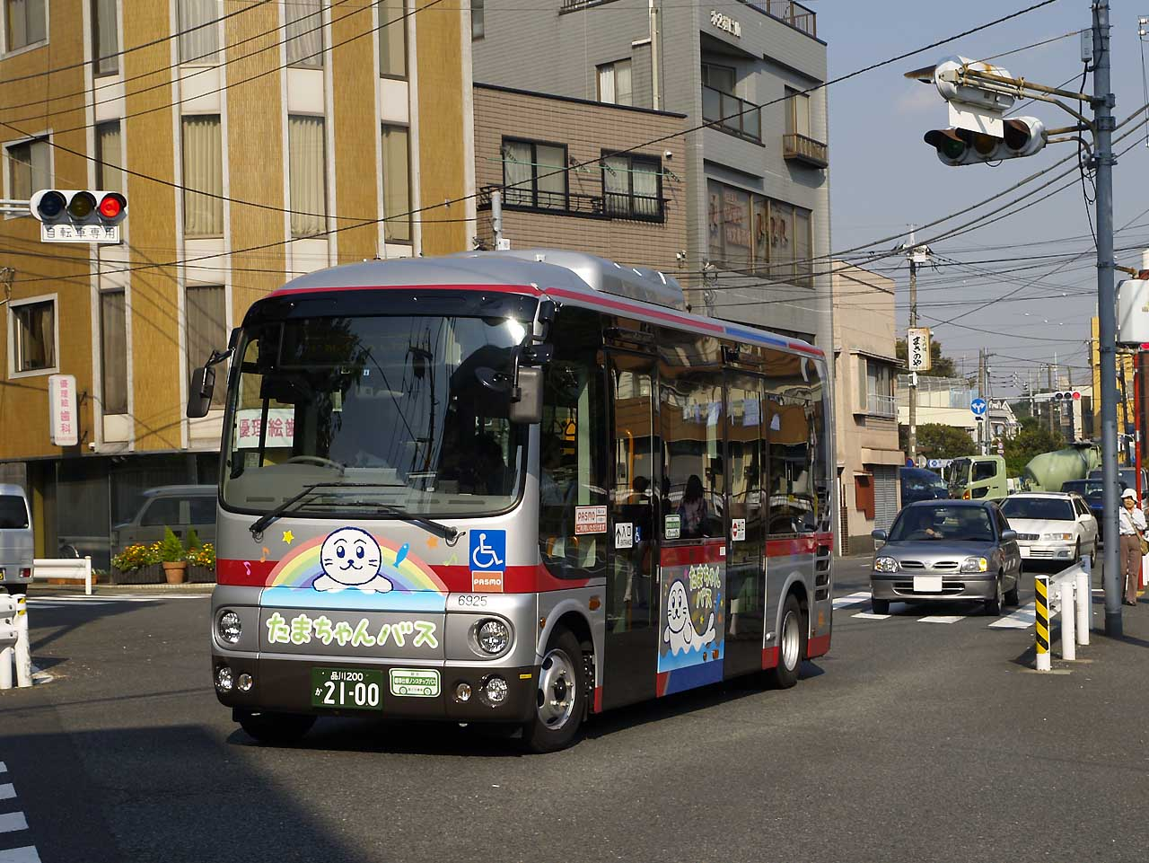 The 1st car of Ota ward "Tamachan Bus", operated by Tokyu Bus. Model: Hino Poncho HX License plate: TKS200KA2100 Place: Shimo-Maruko, Ota ward, Tokyo Japan